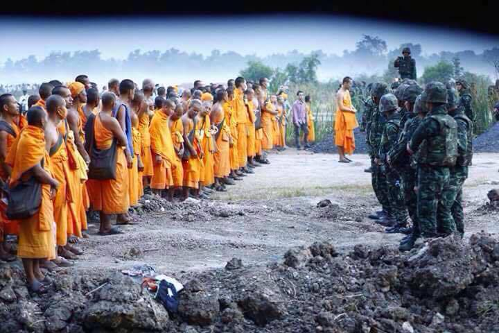 Monks at Wat Phra Dhammakaya meet with soldiers during article 44